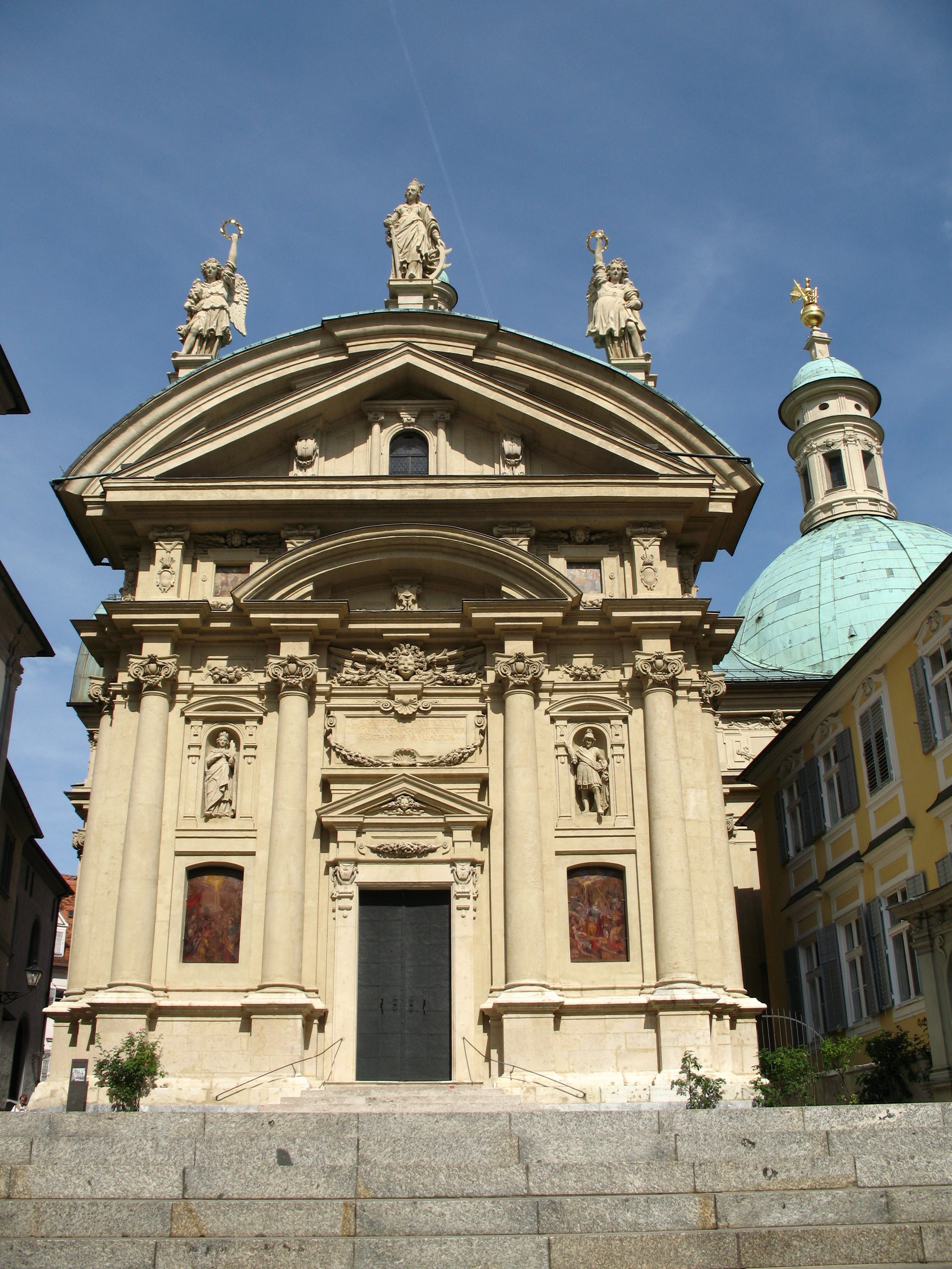 Mausoleum of Ferdinand II, Graz, Austria